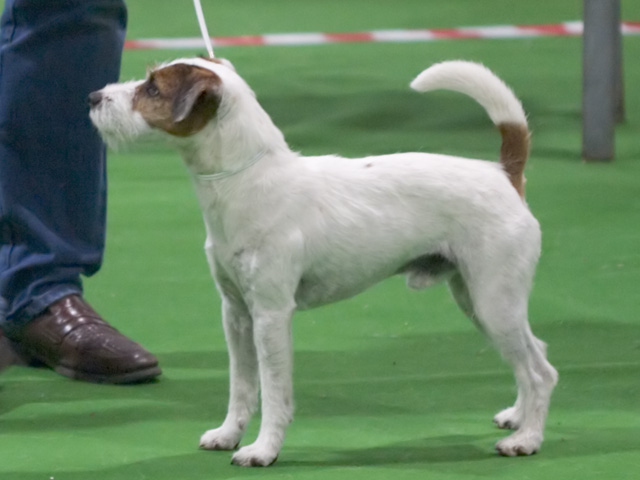 This dog is a rough coated, white-brown Parson Russell Terrier. (